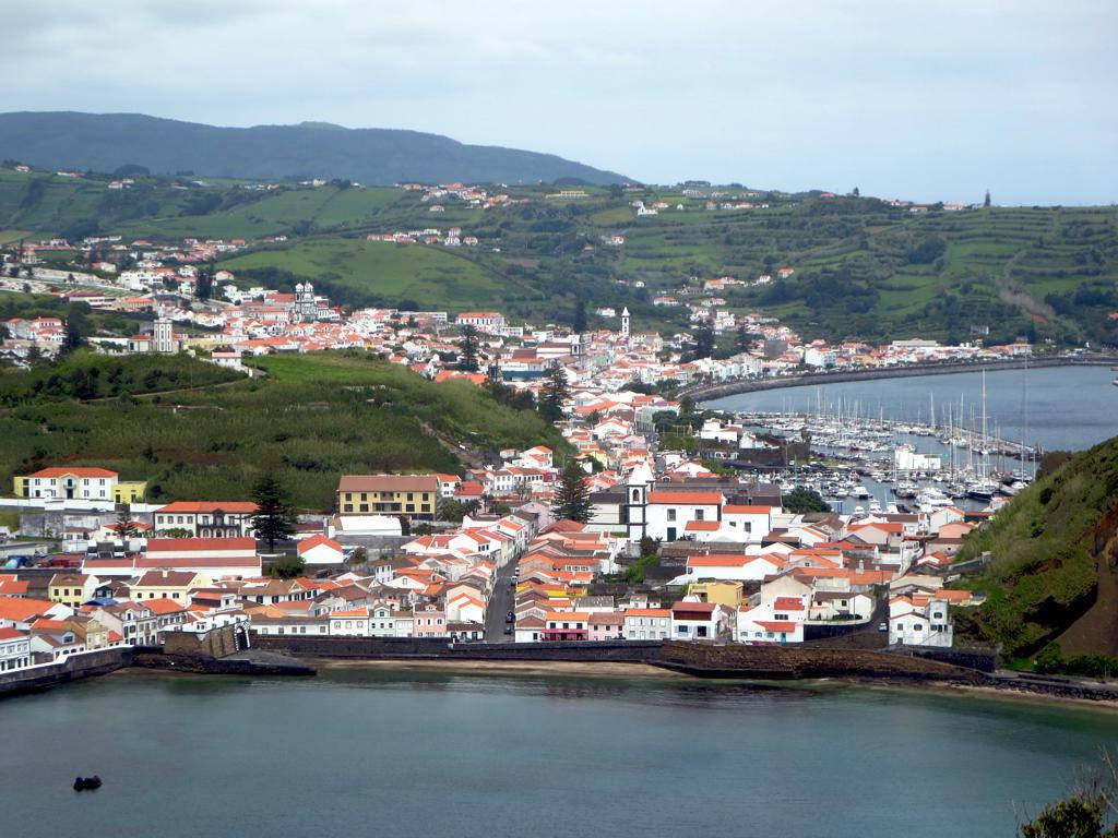 The Porto Pim neighborhood at Horta on Faial Island in the Azores is squeezed between the city's old and new harbors.